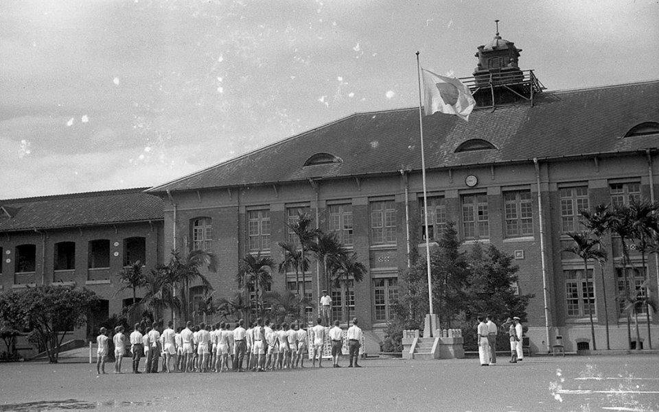 Kensei Elementary School in 1930's